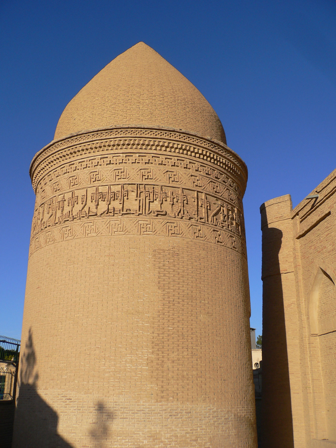 Iran - Semnan Province - Damghan - Imamzadeh Jafar Tower